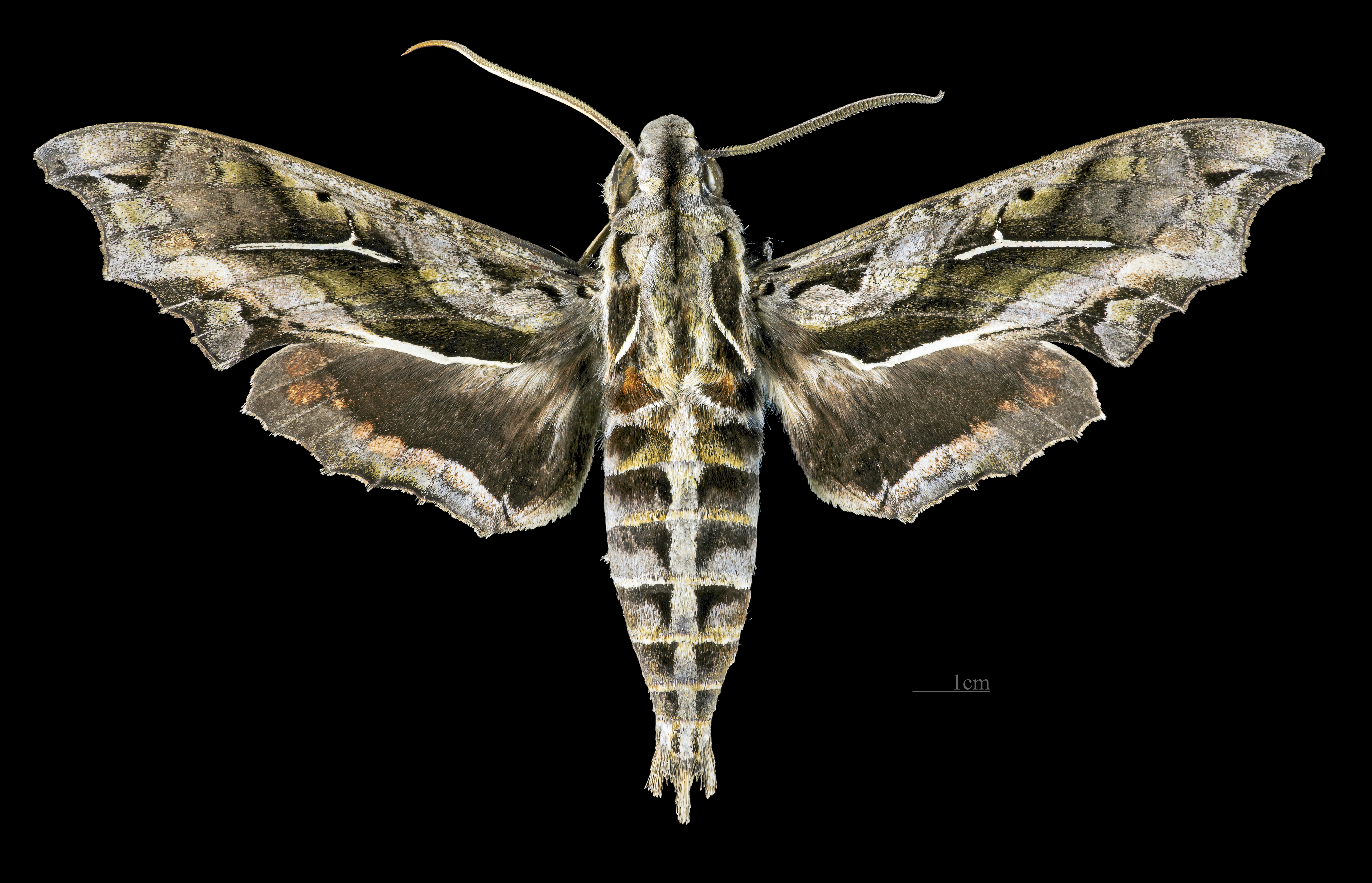 Hemeroplanes longistriga - Dorsal side Collection of the Mathematician Laurent Schwartz